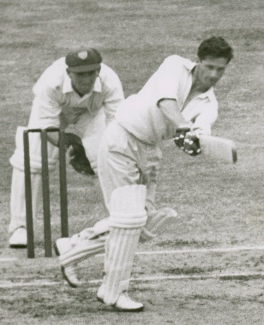 Neil Harvey batting in a cricket match